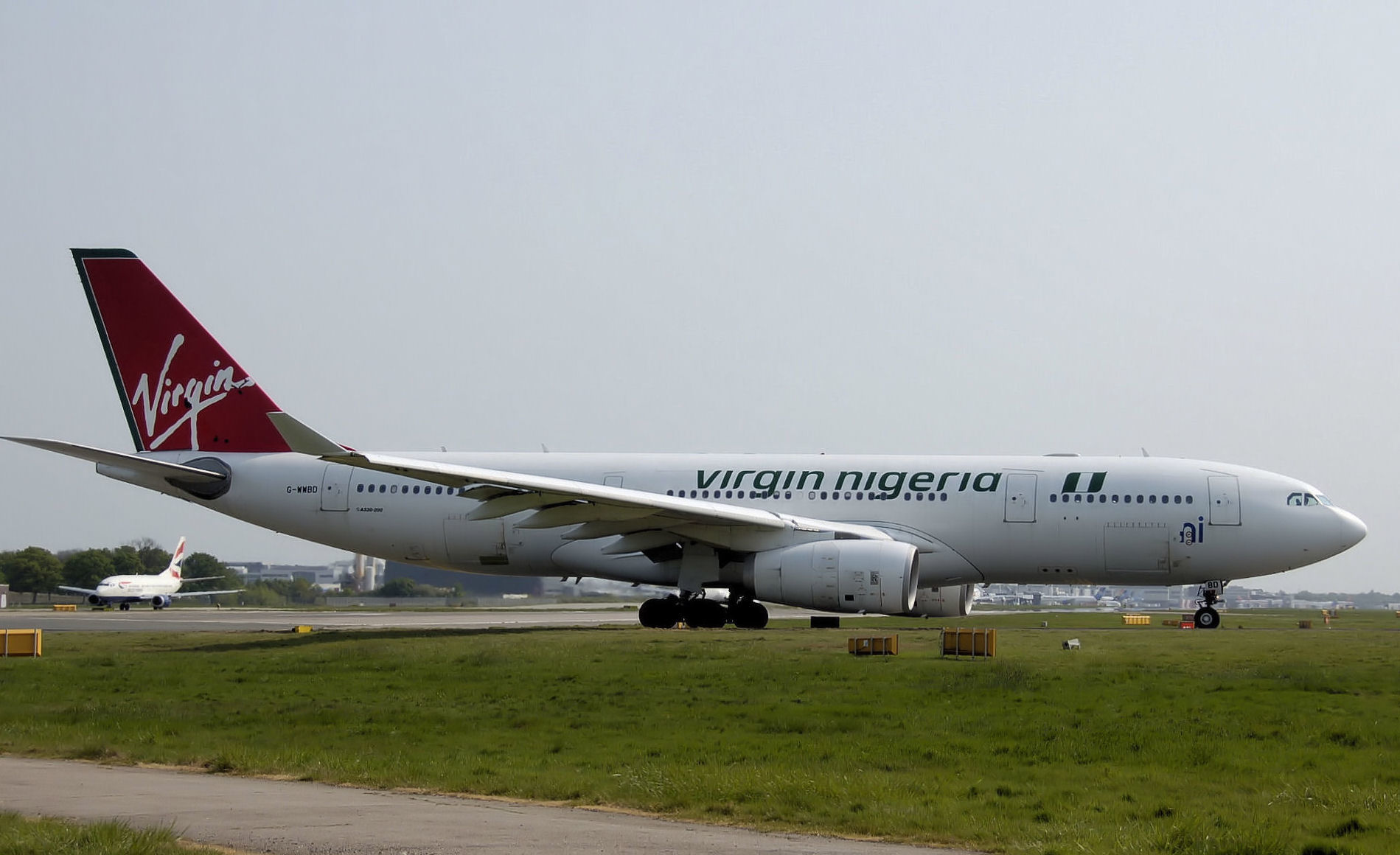 Virgin Nigeria Airbus A330-200 (UK registration G-WWBD) waits for take off at London Gatwick Airport, England. This aircraft is leased from bmi (British Midland Airways) hence the badly worn "bmi" on the nose.